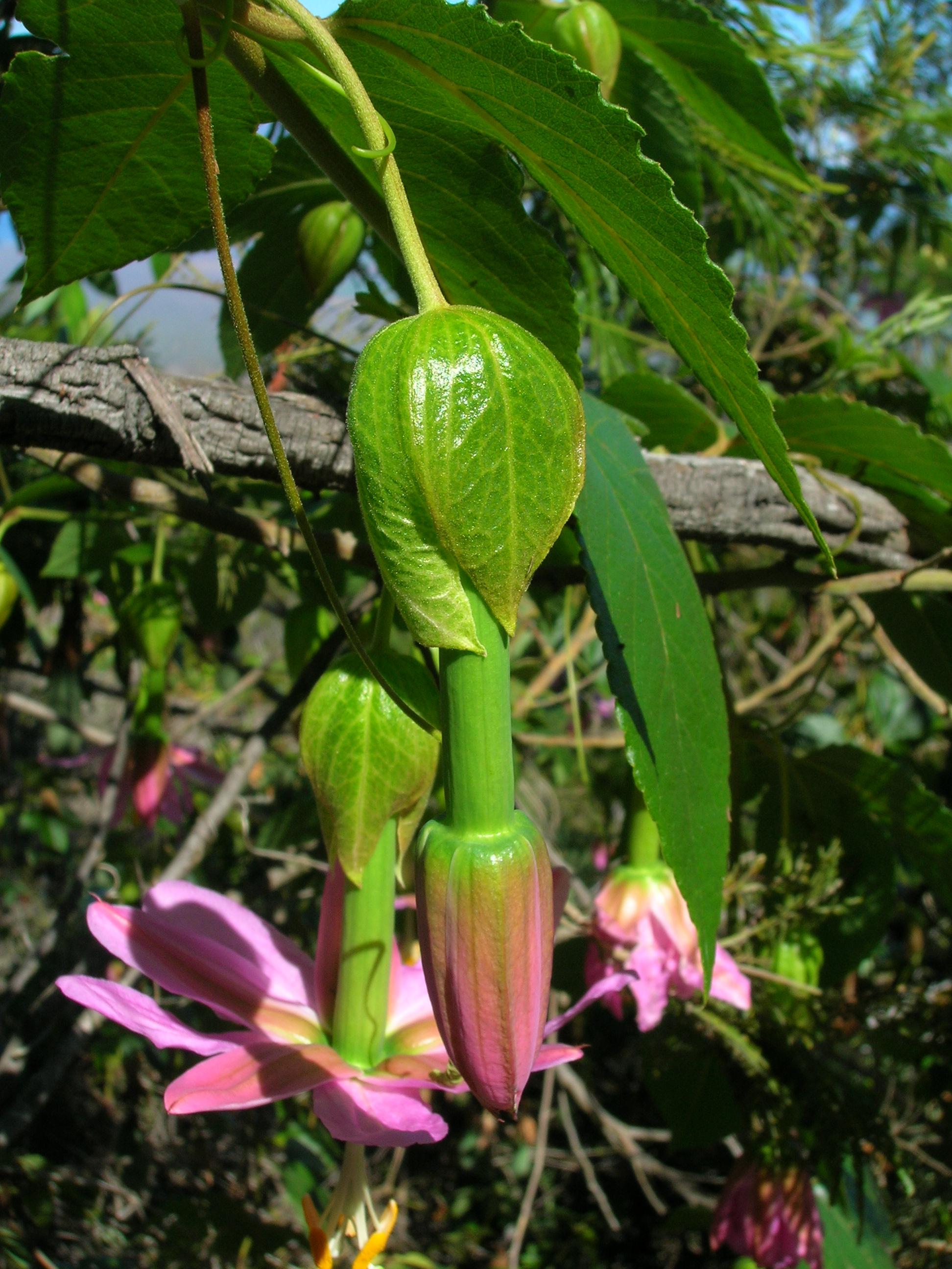 Passiflora tarminiana (flowers). Location: Maui, Keahuaiwi Gulch